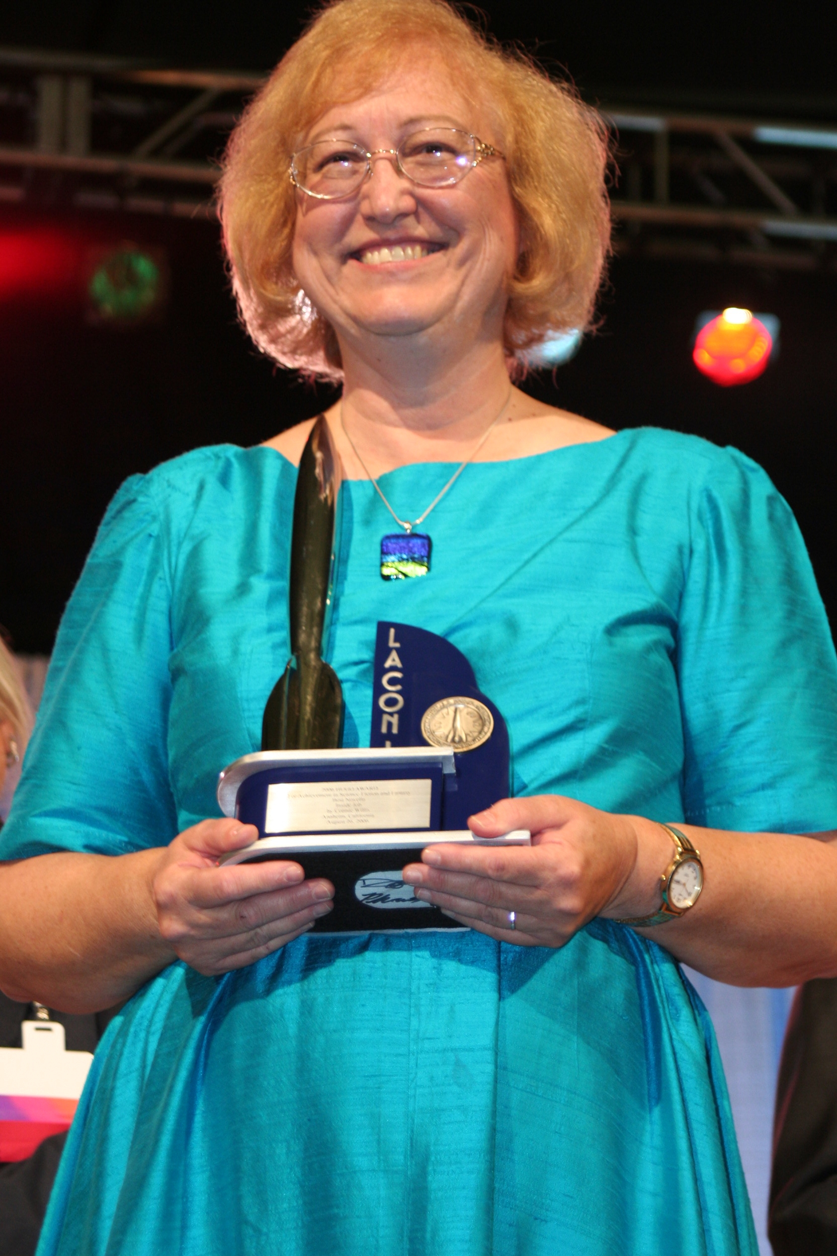 Connie Willis 2006 Hugo Award